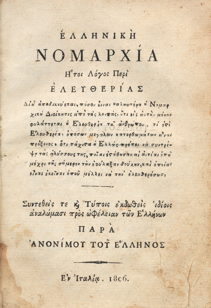 Cover of the Greek pamphlet Ἑλληνικὴ Νομαρχία (Hellenic Nomarchy), published in Italy in 1806 by an anonymous Greek author.